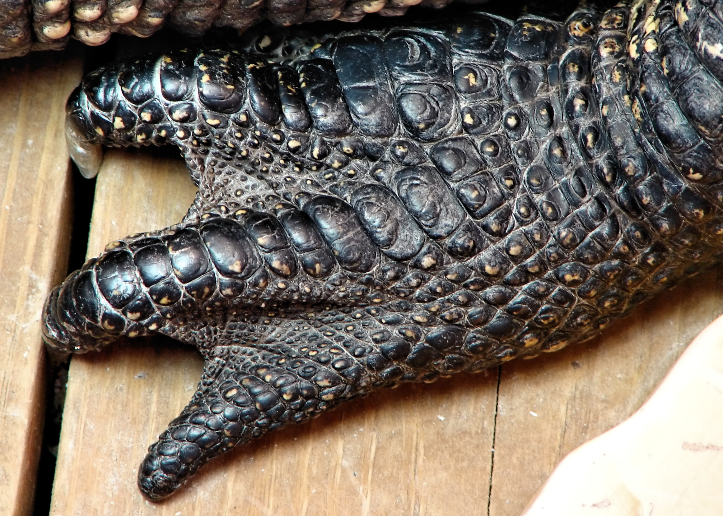 An American alligator's foot